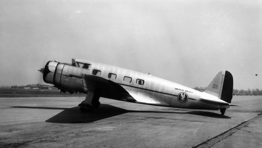 PictionID:40971575 - Title:Vultee V-1A cn 2 NC13764 American Airlines - Catalog:15_002854 - Filename:15_002854.tif - PictionID:40971474 - Title:Lancer Republic YP-43 - Catalog:15_002846 - Filename:15_002846.tif - Image from the Charles Daniels Photo Collection album "US Army Aircraft."----PLEASE TAG this image with any information you know about it, so that we can permanently store this data with the original image file in our Digital Asset Management System.----SOURCE INSTITUTION: San Diego Air and Space Museum Archive